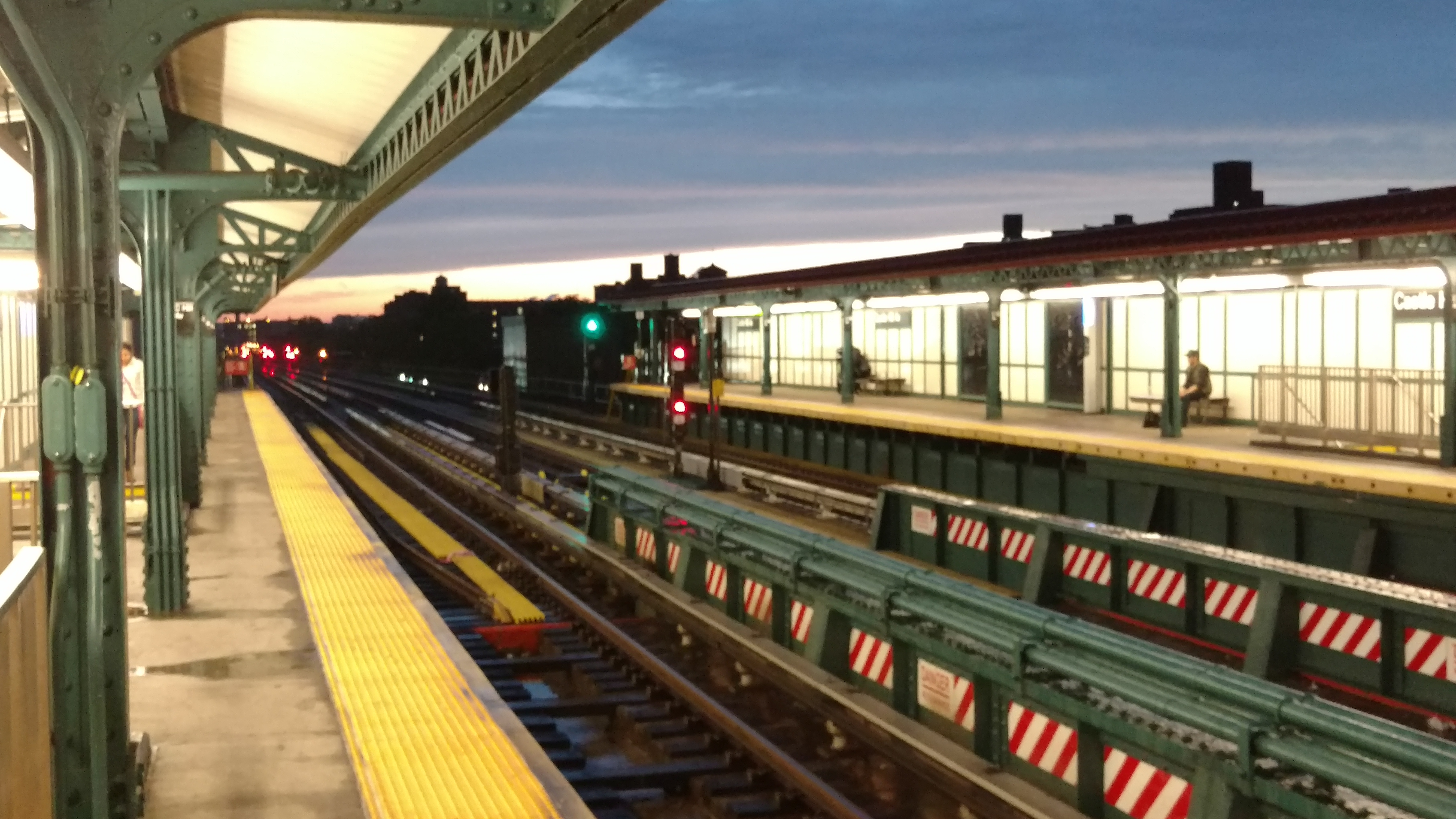 Sunsets and Rainbows In Da Bronx